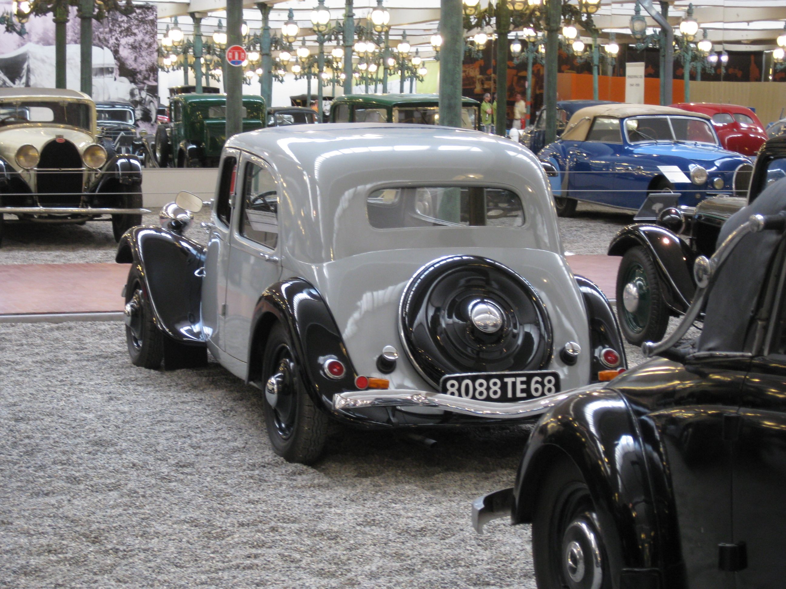 Citroen Traction 7A 1934